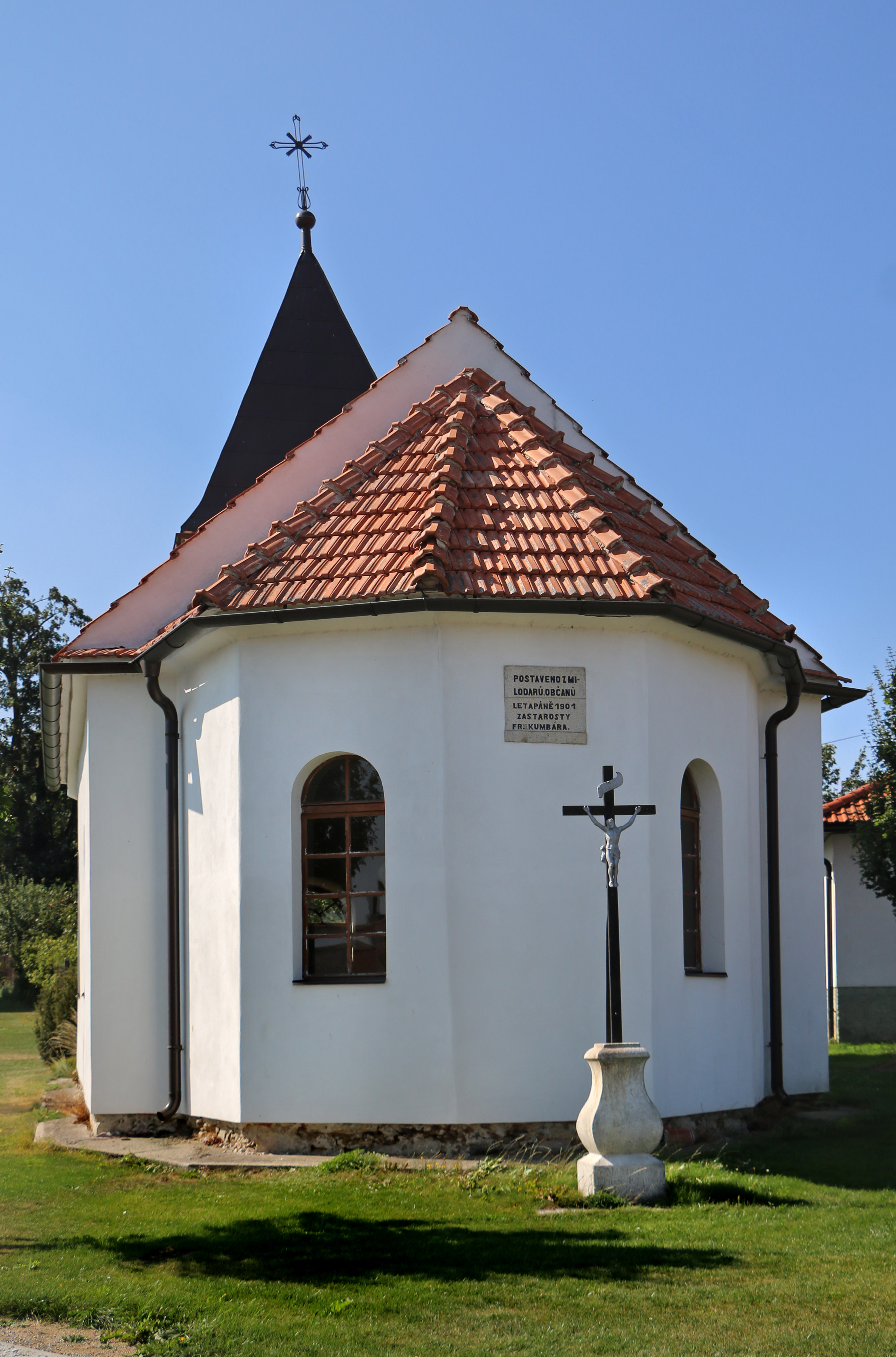 Church in Nová Buková, Czech Republic.